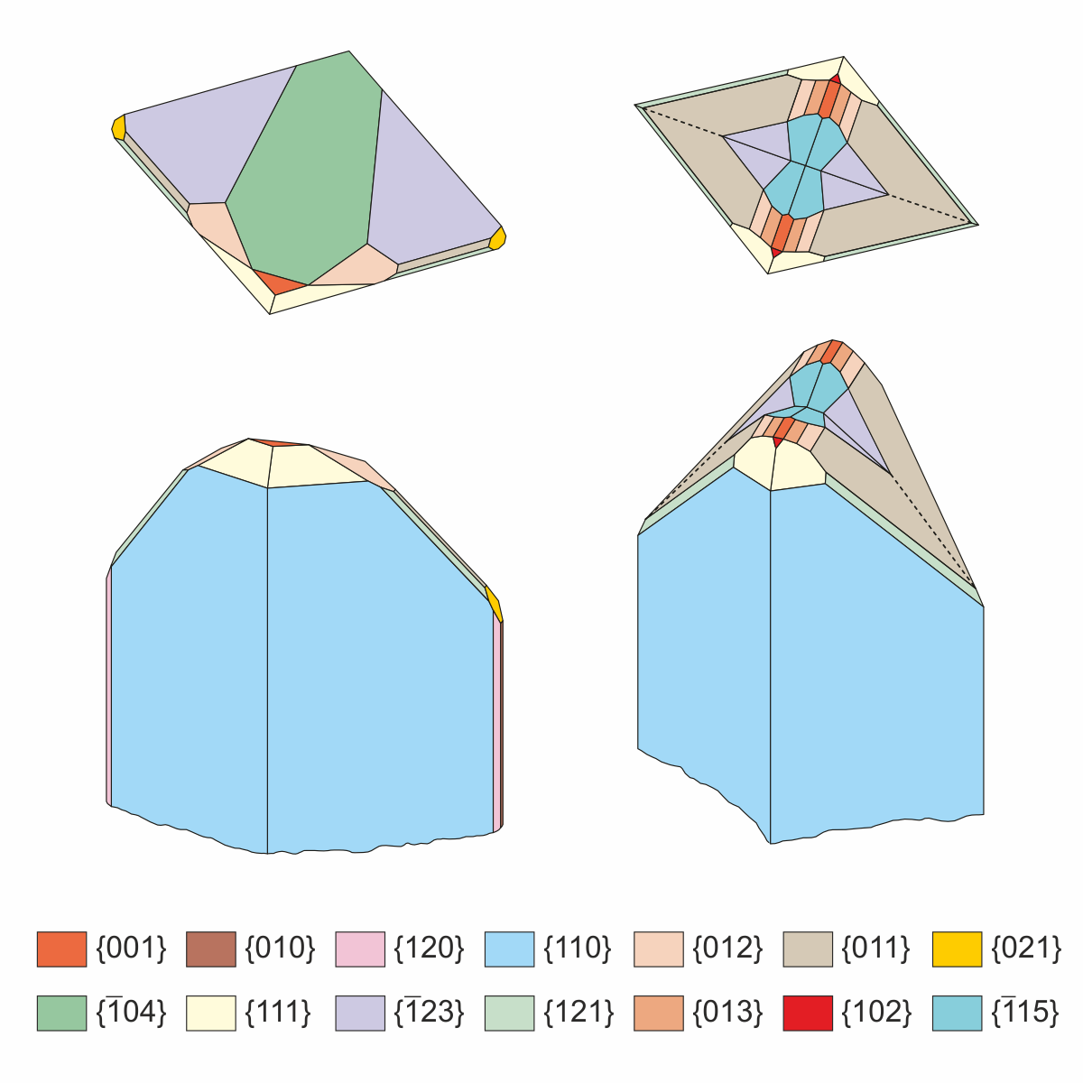 Drawings of hydroxylherderite crystals from Topsham, Maine/USA, with separate drawings of their termination faces; reference:G. M. Yatsevitch (1935), The American Mineralogist Vol. 20, page 429. Left: a simple prismatic crystal, right: a twin crystal.